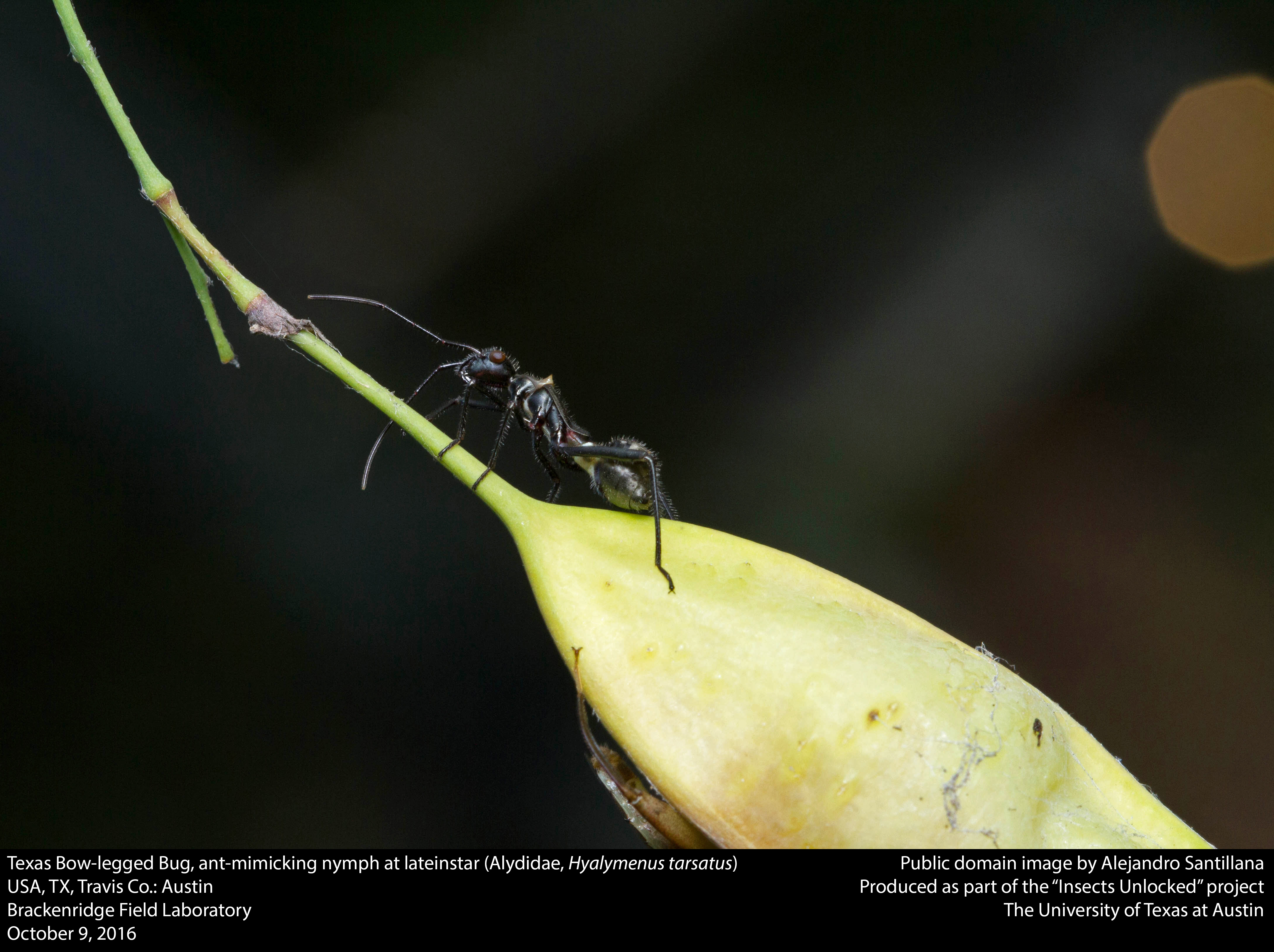 USA, TX, Travis Co.: Austin Brackenridge Field Laboratory 09-x-2016